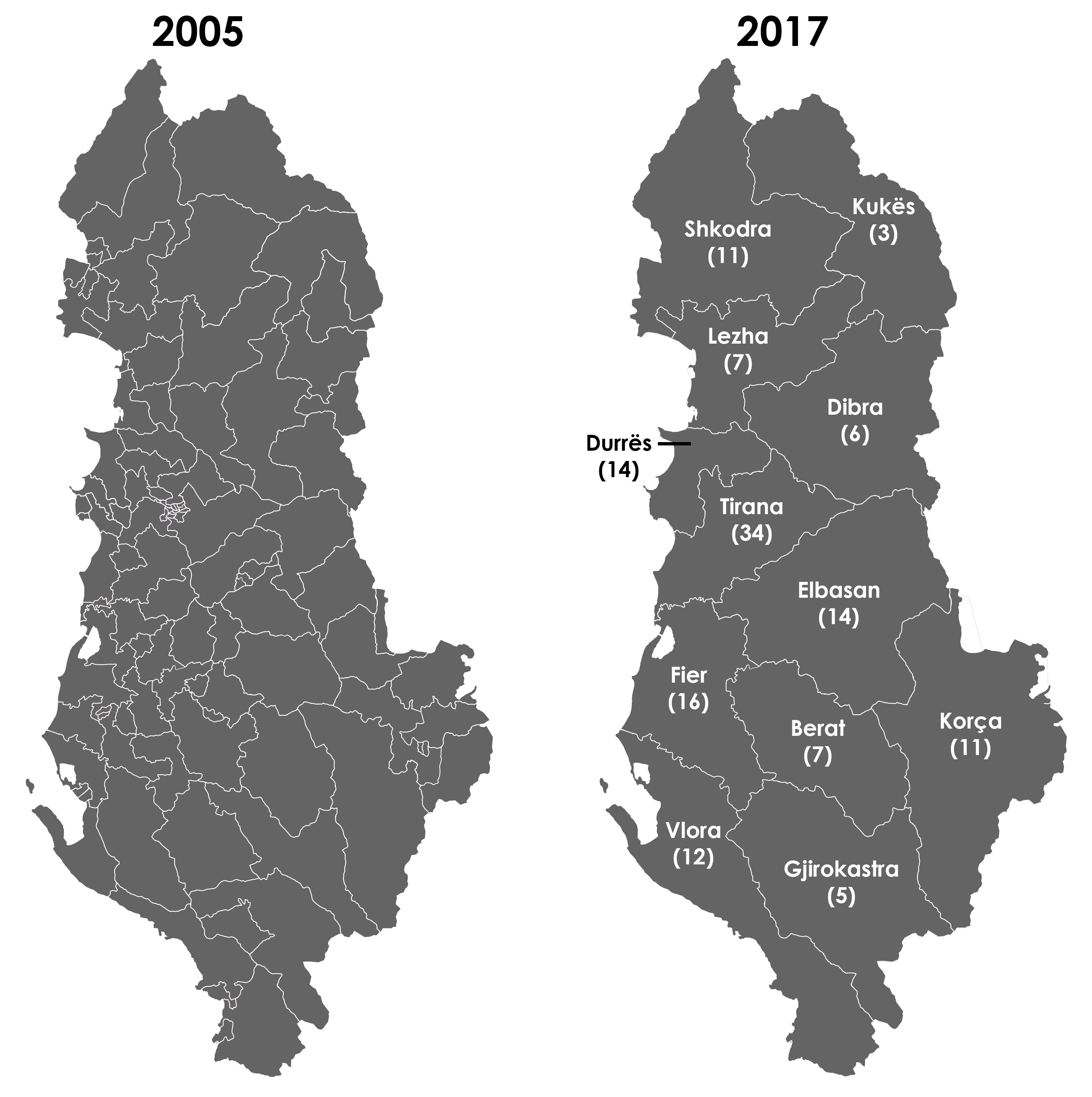 Parliamentary electoral map of Albania in 2005 vs 2017